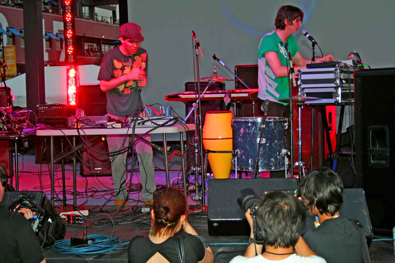 at south street seaport